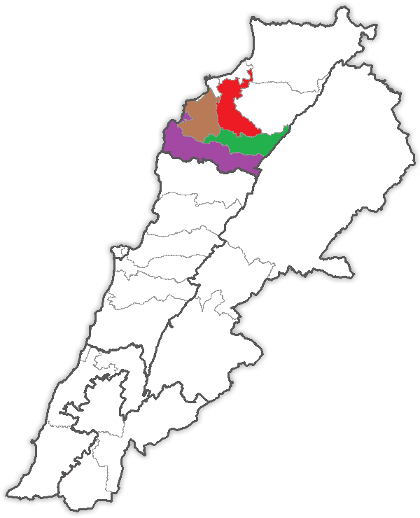 electoral district (2017 Election Law)